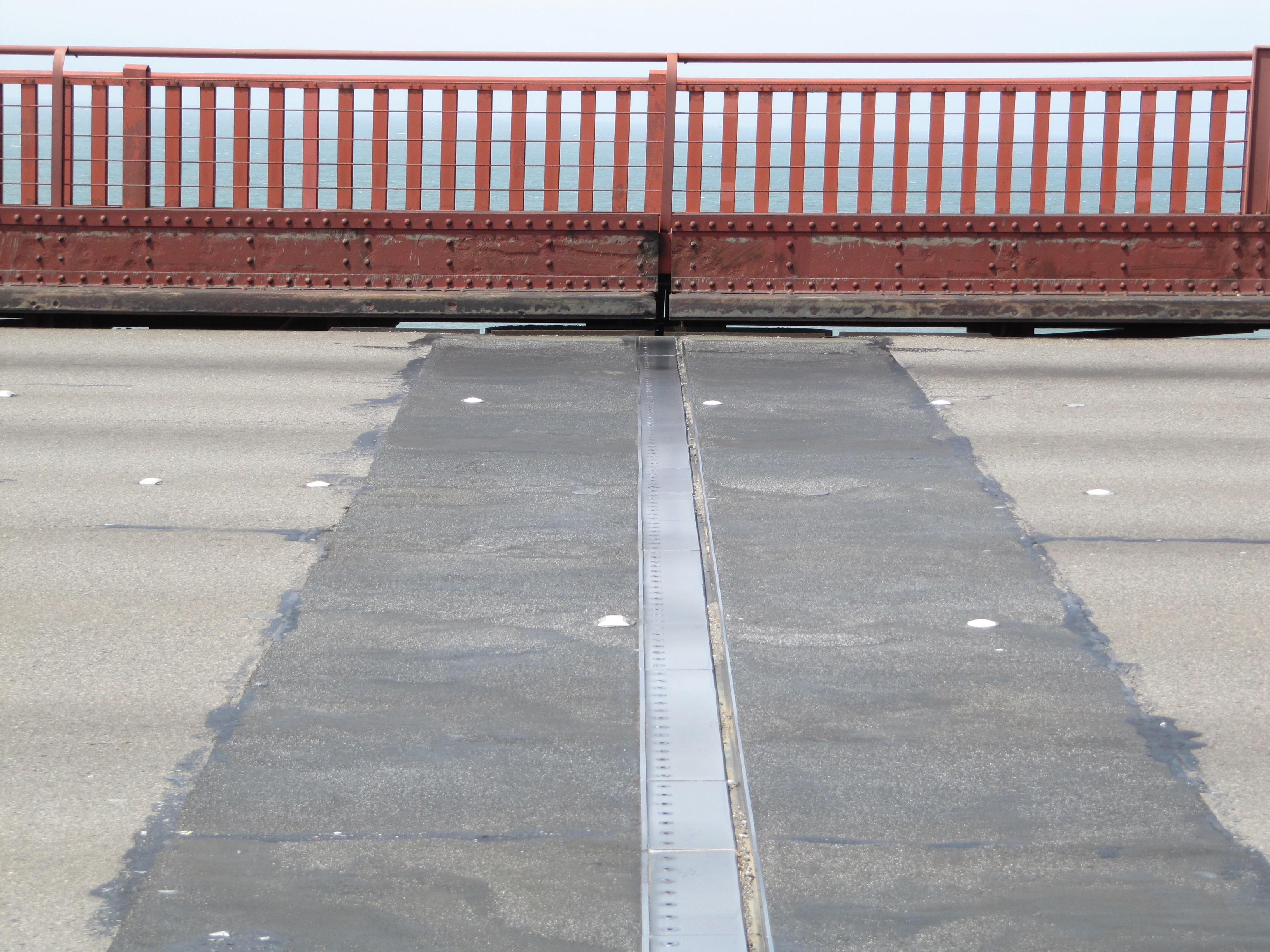 Expansion joint and Golden Gate Bridge railing.